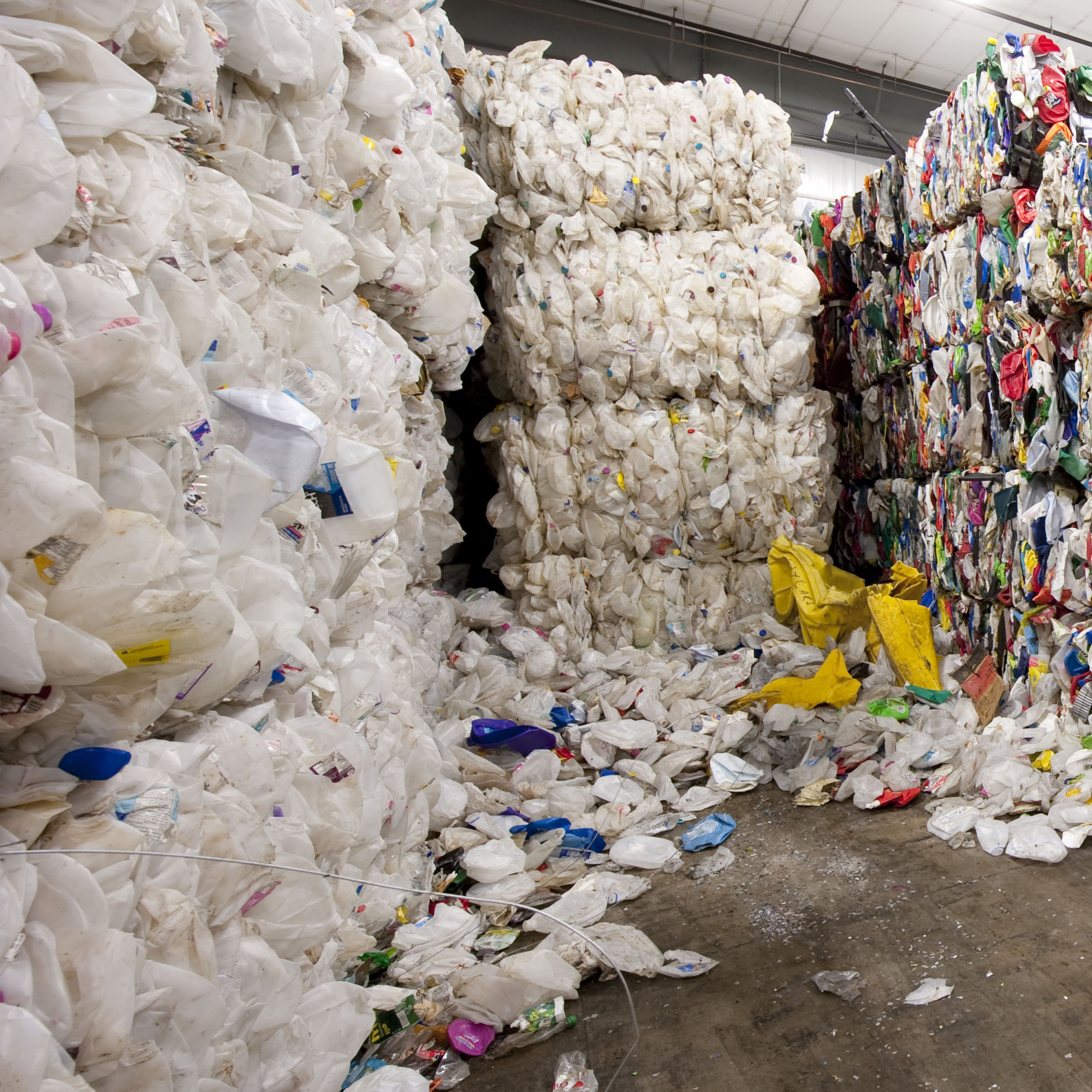 recycled HDPE plastic ready to made into lumber